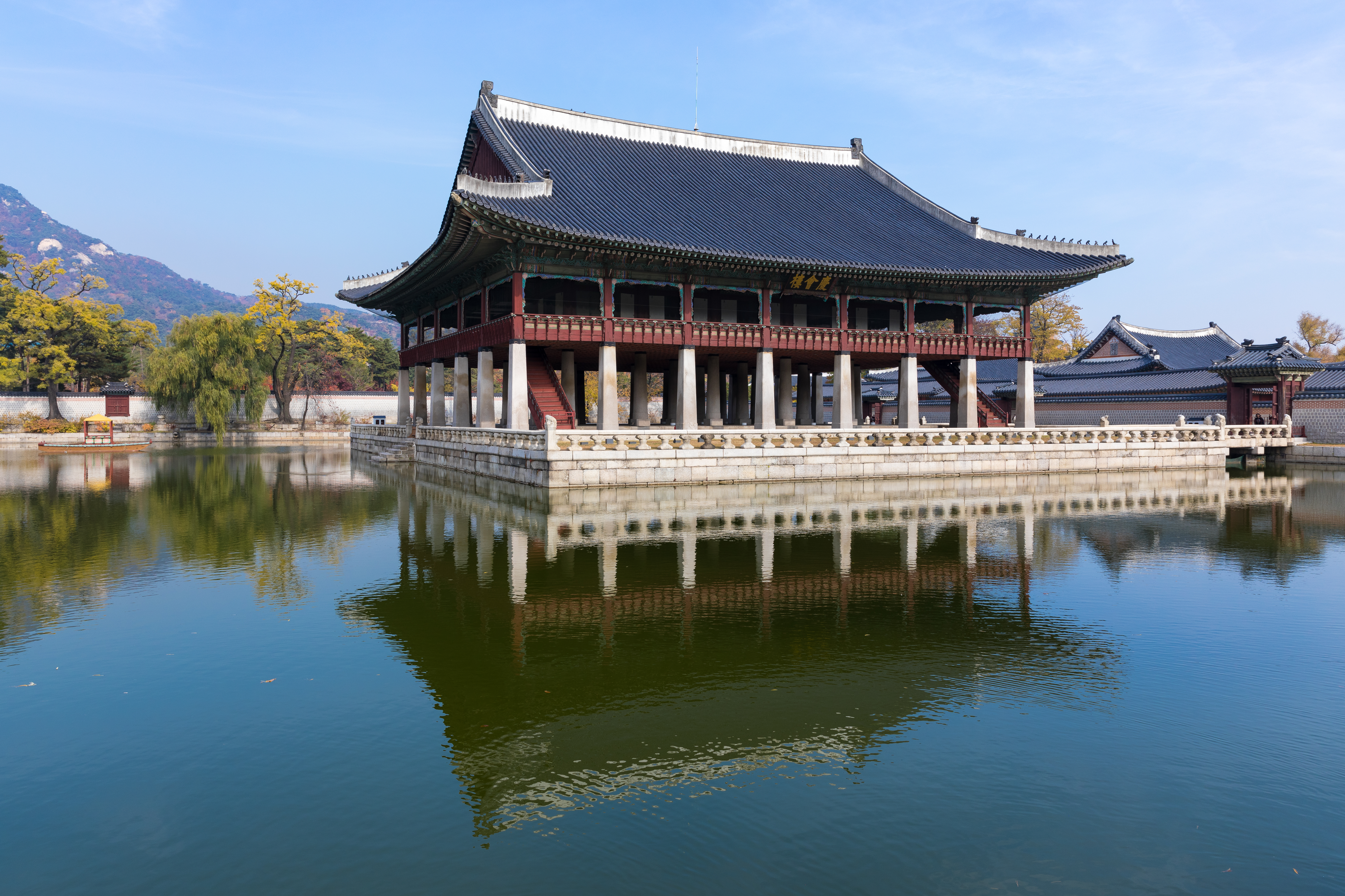 Royal Banquet Hall Gyeonghoeru (경회루) at Gyeongbokgung Palace (경복궁), Seoul